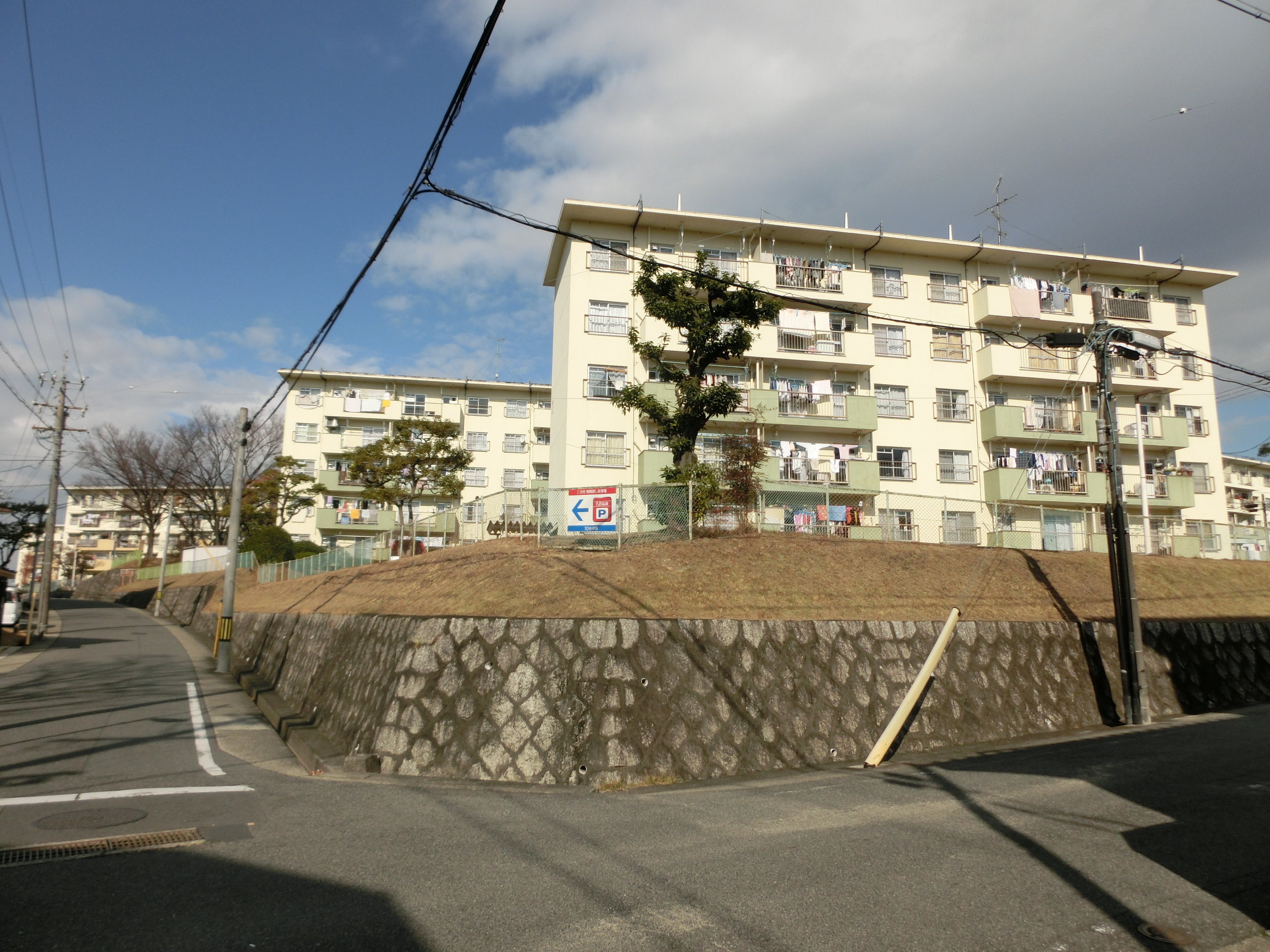 Naruko Danchi